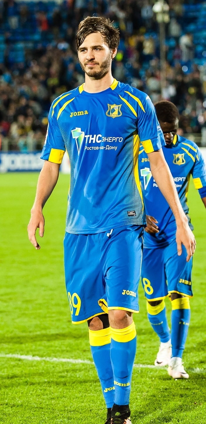 Aleksandr Yerokhin with FC Rostov after the game against FC Zenit Saint Petersburg on 24 April 2016.